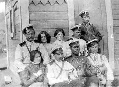 Maria Shkolnik (first row), Revekka Fialka and Maria Spiridonova on their way to Siberia (summer 1906).